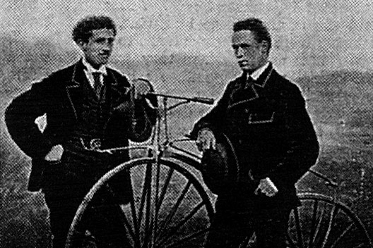 James Moore (r)